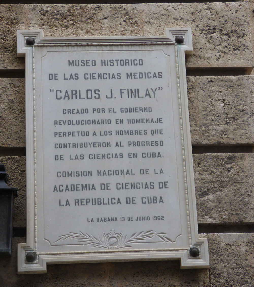 These photos of the Finlay Medical History Museum were taken in January, 2016.